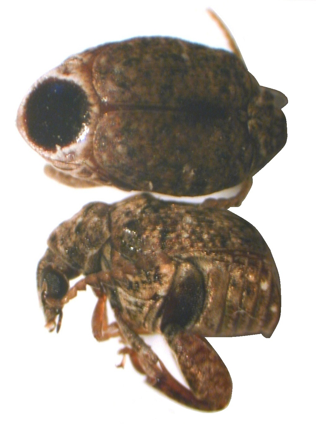 Ventral and left lateral views of Specularius impressithorax 2002-06-15 3, Bruchidae, Coleoptera, ex Erythrina sandwicensis seeds, location: Puu o Kali, Maui